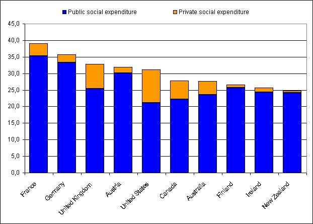 Public and private social expenditure as percentage of Net national income at factor costs of 2005. Source: Society at a Glance 2009 - OECD Social Indicators.